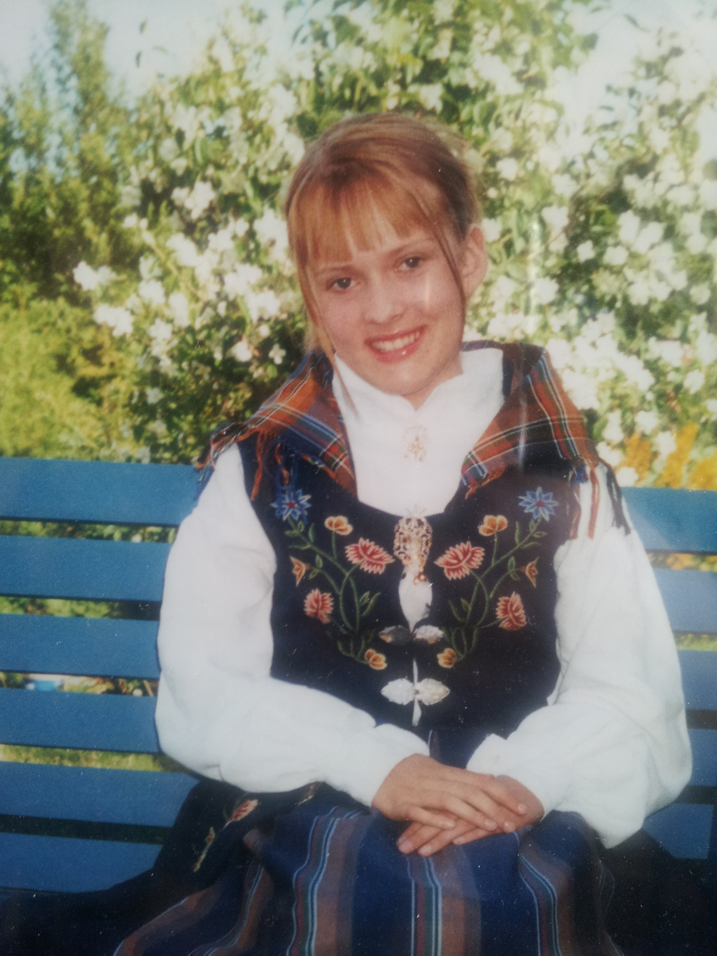 Girl in Nordlandsbunad (Norwegian folk costume)